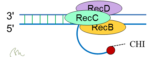 Enzyme RecBCD nicks in ssDNA CHI site.